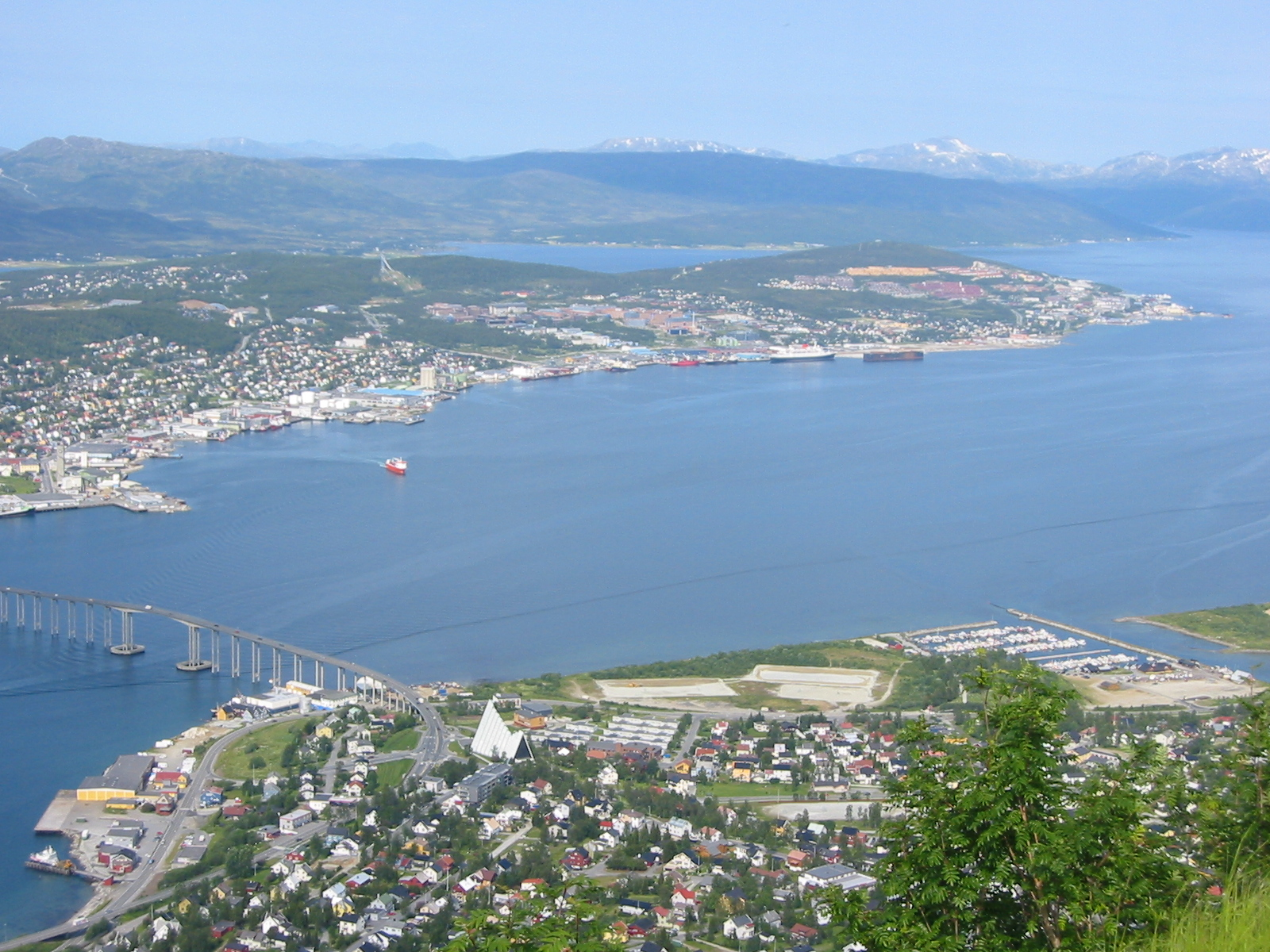 Tromsø, Norway. Taken by Orcaborealis from Fløya/ Storstein (420 m above sea) towards northwest, July 15 2003. Mainland closest, then Tromsøya island, Kvaløya island and Ringvassøy island. City center to the left on Tromsøya, largely out of view.